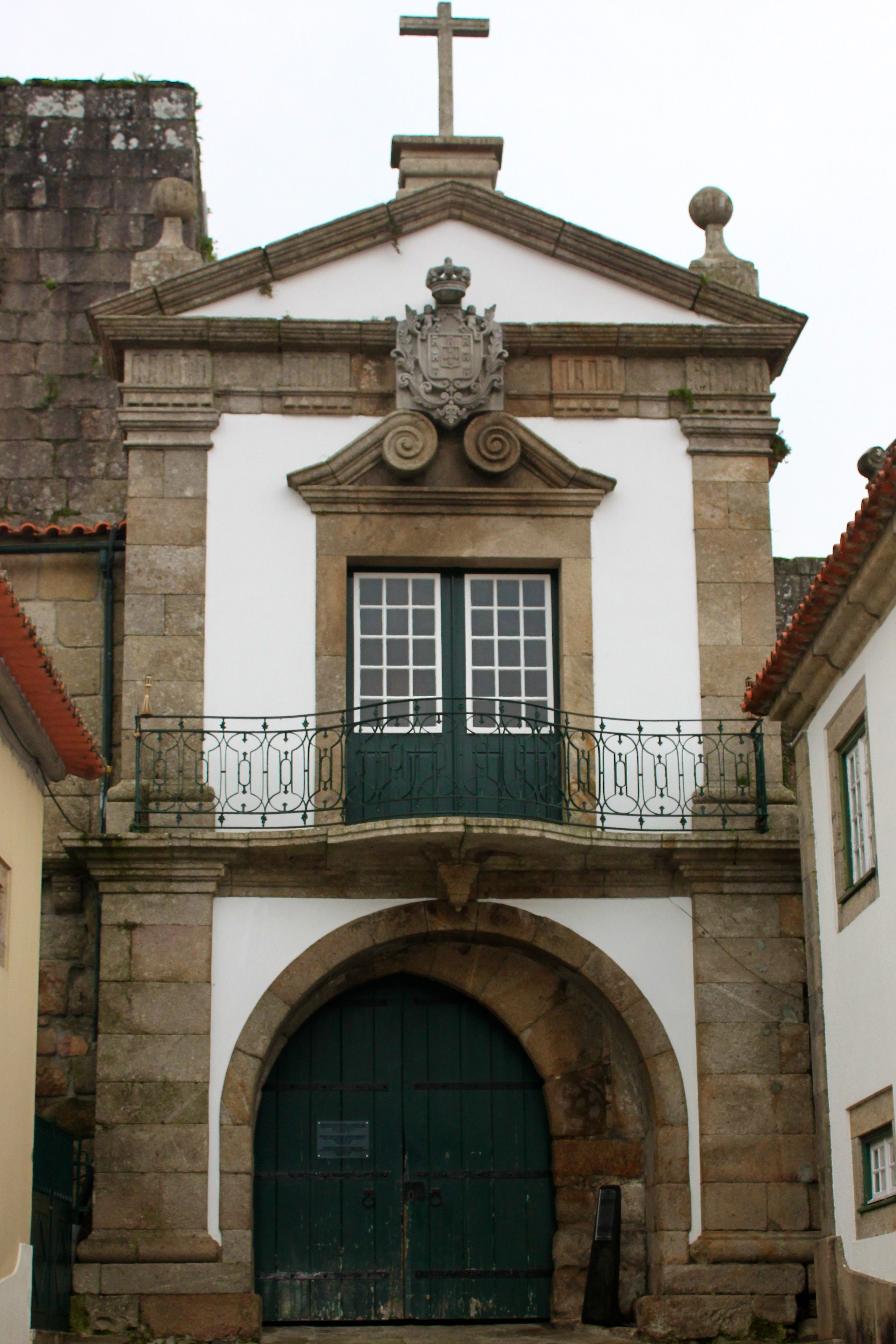 This file was uploaded for Wiki Loves Monuments in Portugal with the unique identifier 70700.